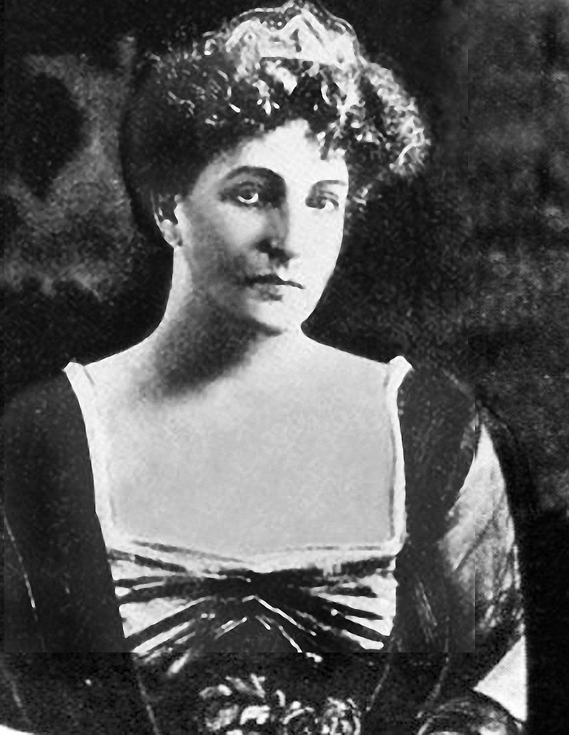 Marian Thayer, circa 1900, a survivor of the Titanic disaster